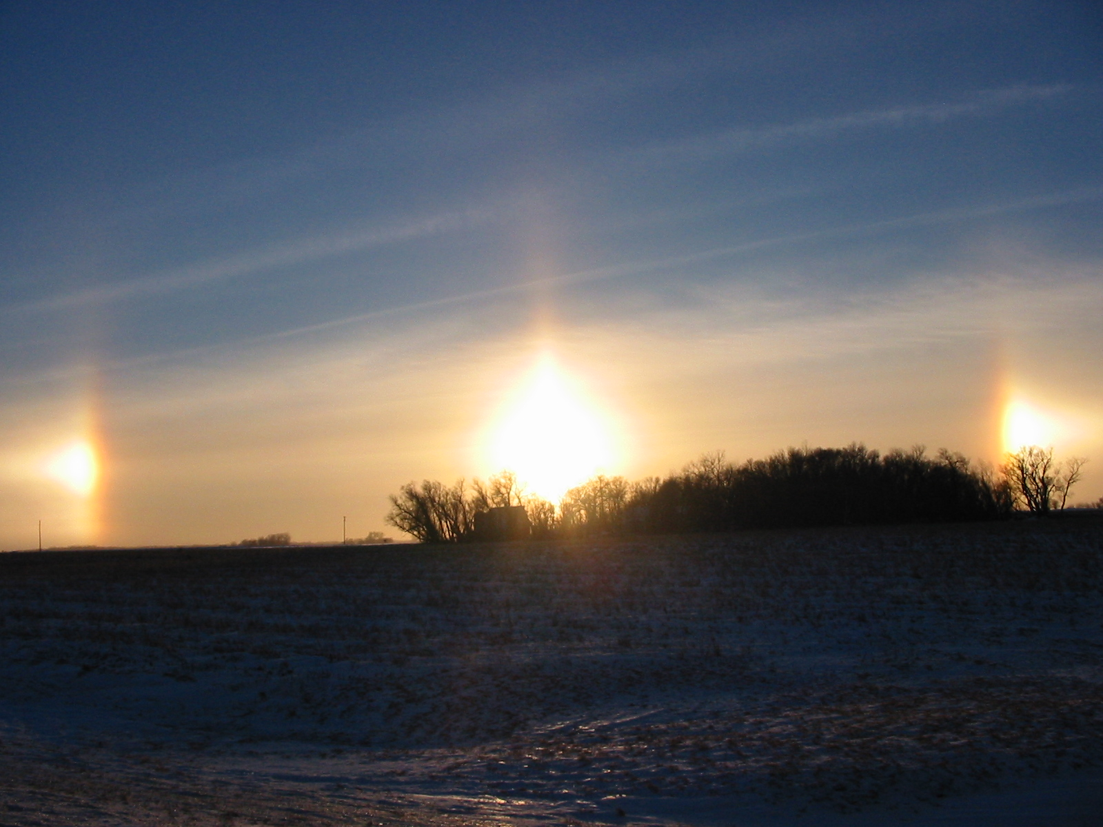 Sun dogs during sunset outside of New Ulm, MN. Note the sun dogs on either side of the actual sun, with halo arcs passing through each parhelion.